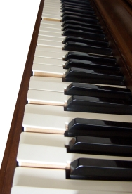 A player piano in action performing a piano roll.